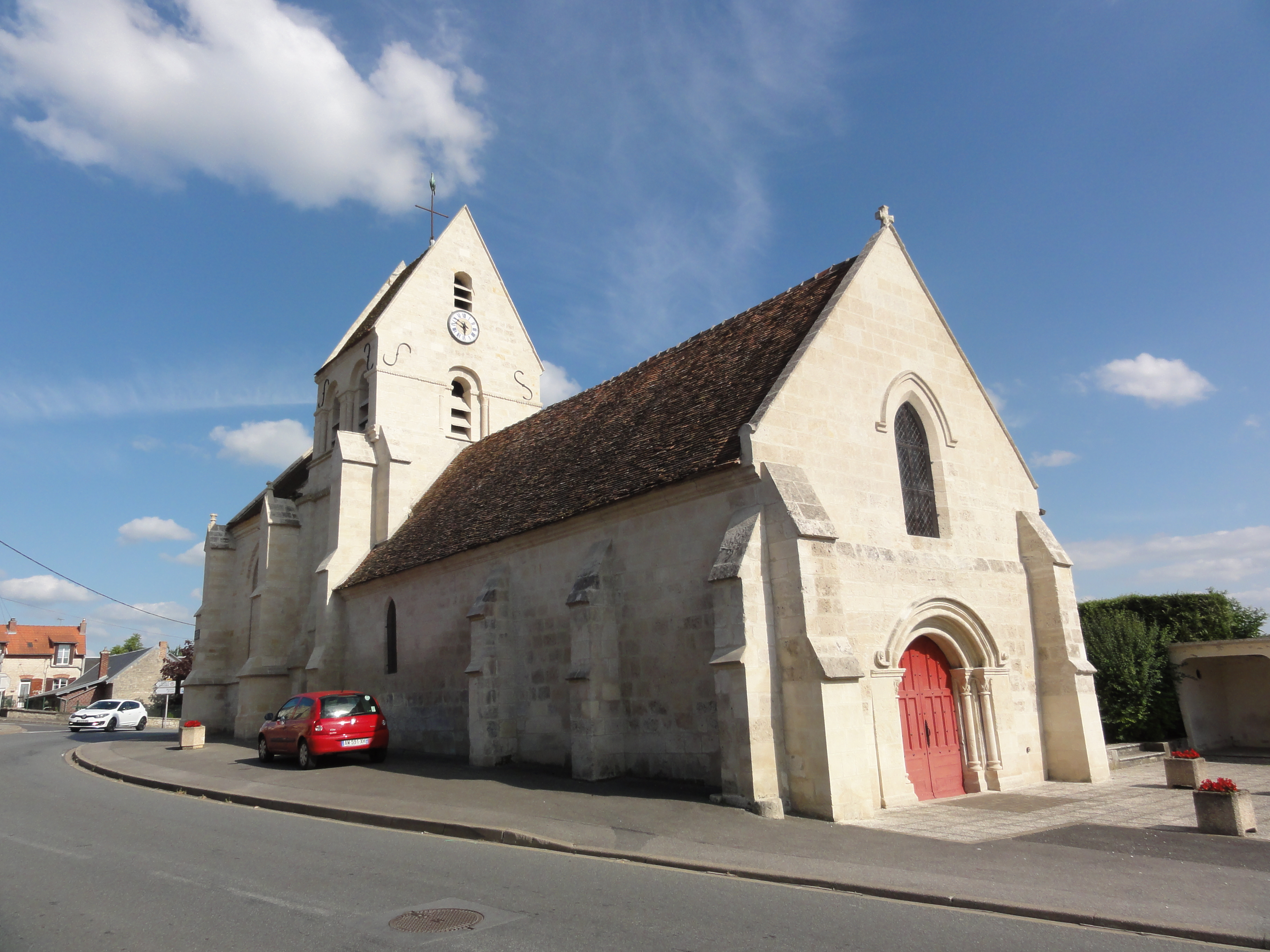 Pommiers (Aisne) l'église en 2015